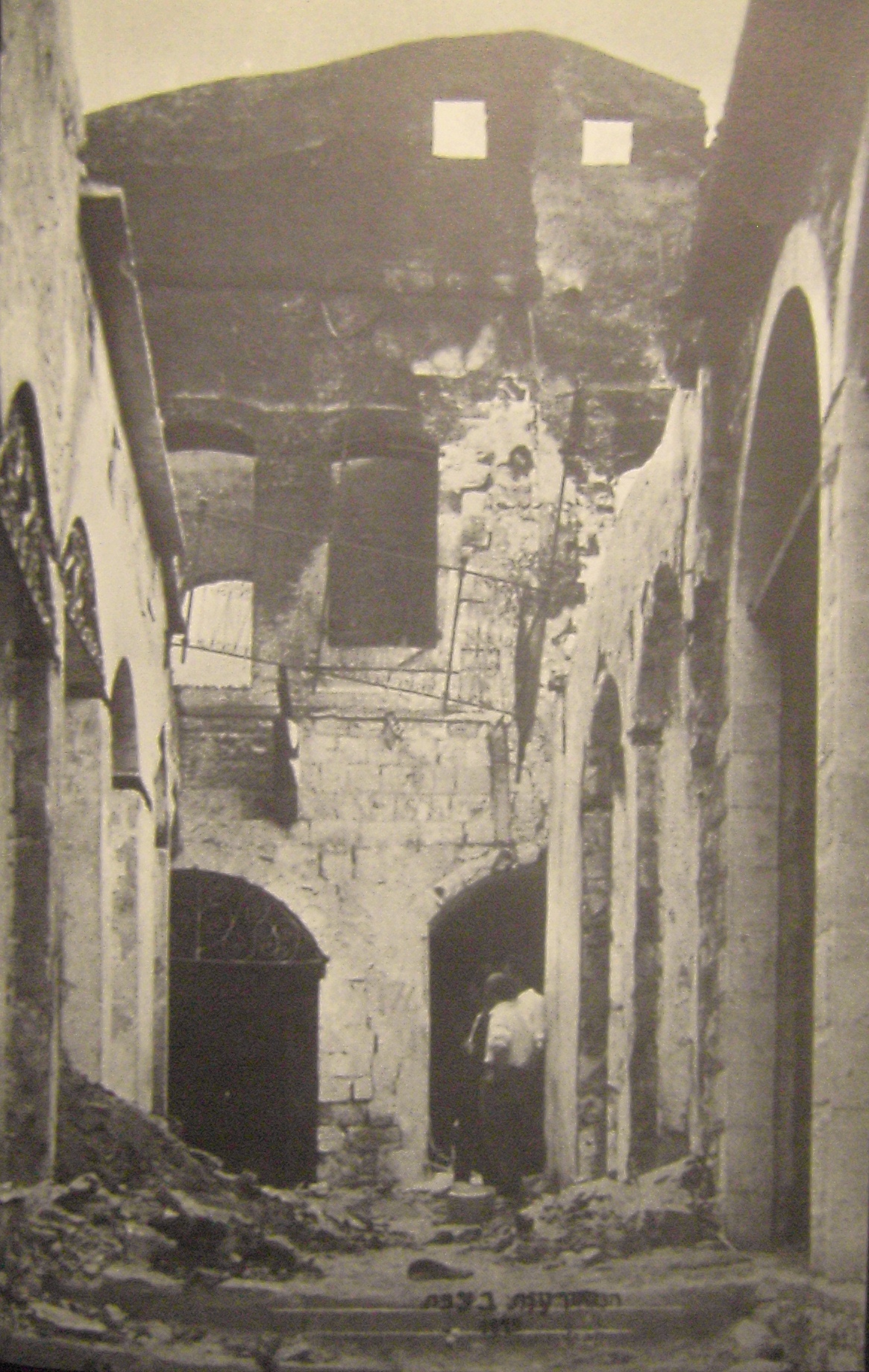 1929 Safed pogrom